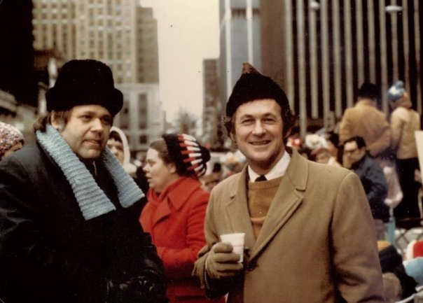 William Dickinson, coordinator of the School for Creative and Performing Arts, and Dr. Donald Waldrip, Superintendent of the Cincinnati Public Schools, at a Cincinnati Boy Choir performance on Fountain Square in Cincinnati, Ohio